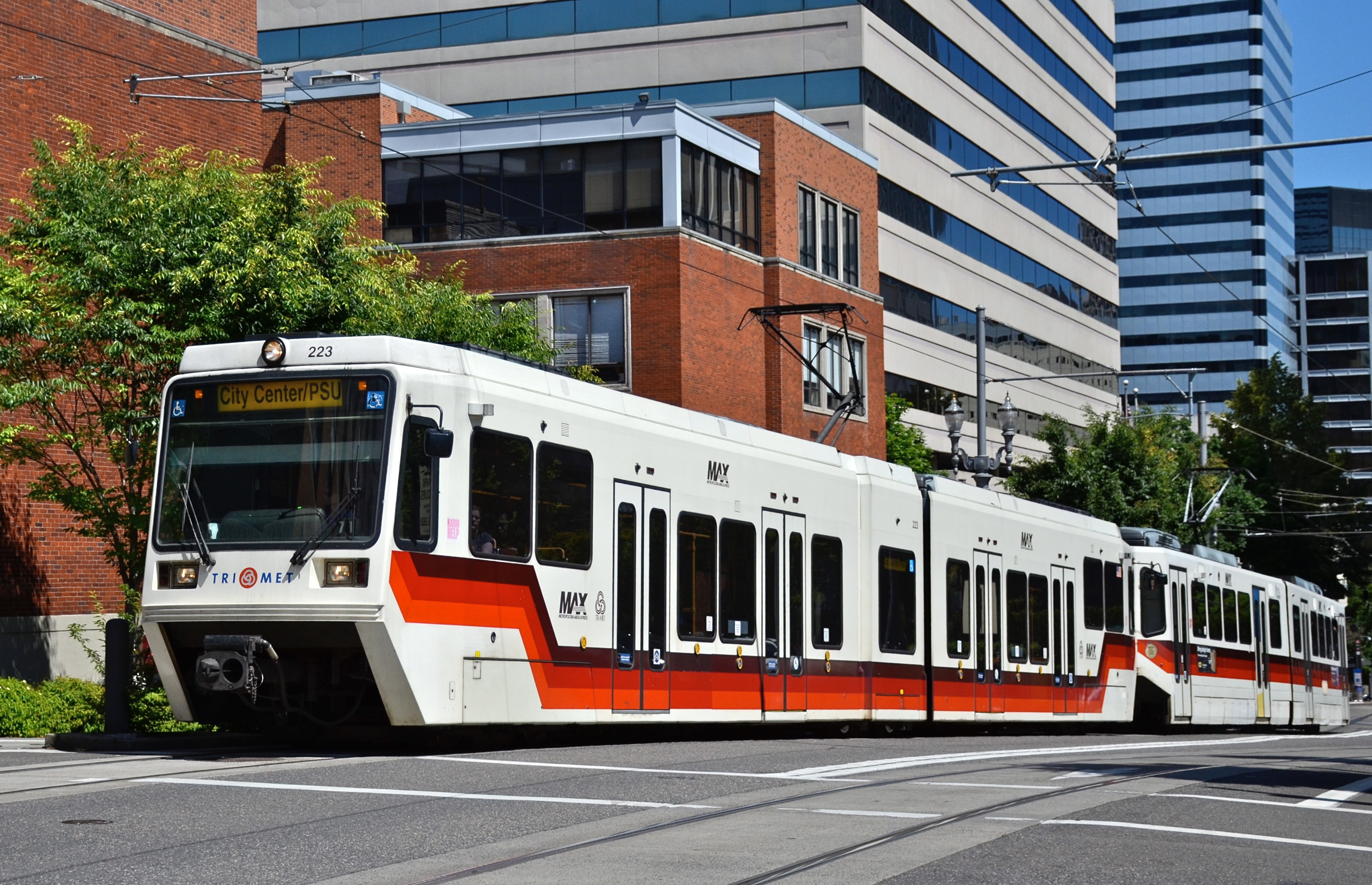 Portland, Oregon: An ad-free MAX train composed of a Type 2 car (low-floor design) and a Type 1 car (older, high-floor design) southbound on S.W. 5th Avenue at Mill Street in Downtown Portland (which TriMet refers to as the City Center, contrary to common local usage). The specific cars shown are 223 + 103. TriMet's Type 2 cars are a series of 52 Siemens SD660 LRVs (light rail vehicles) built over the period 1996–2000, which were the first low-floor LRVs in North America, and its Type 1 cars are a series of 26 LRVs built by Bombardier over the period 1983–86.